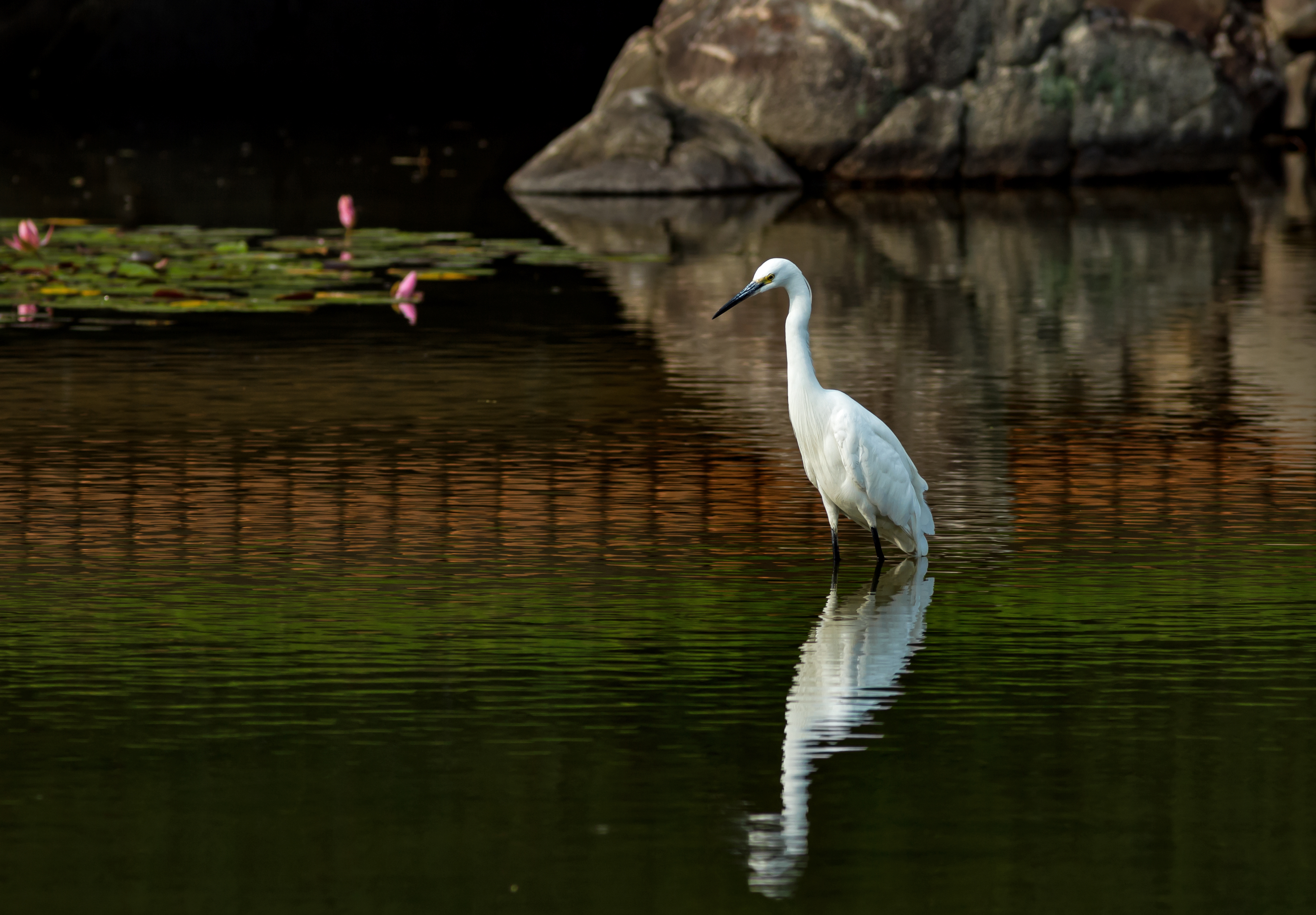 Little egret (Taken at Keitakuen.)